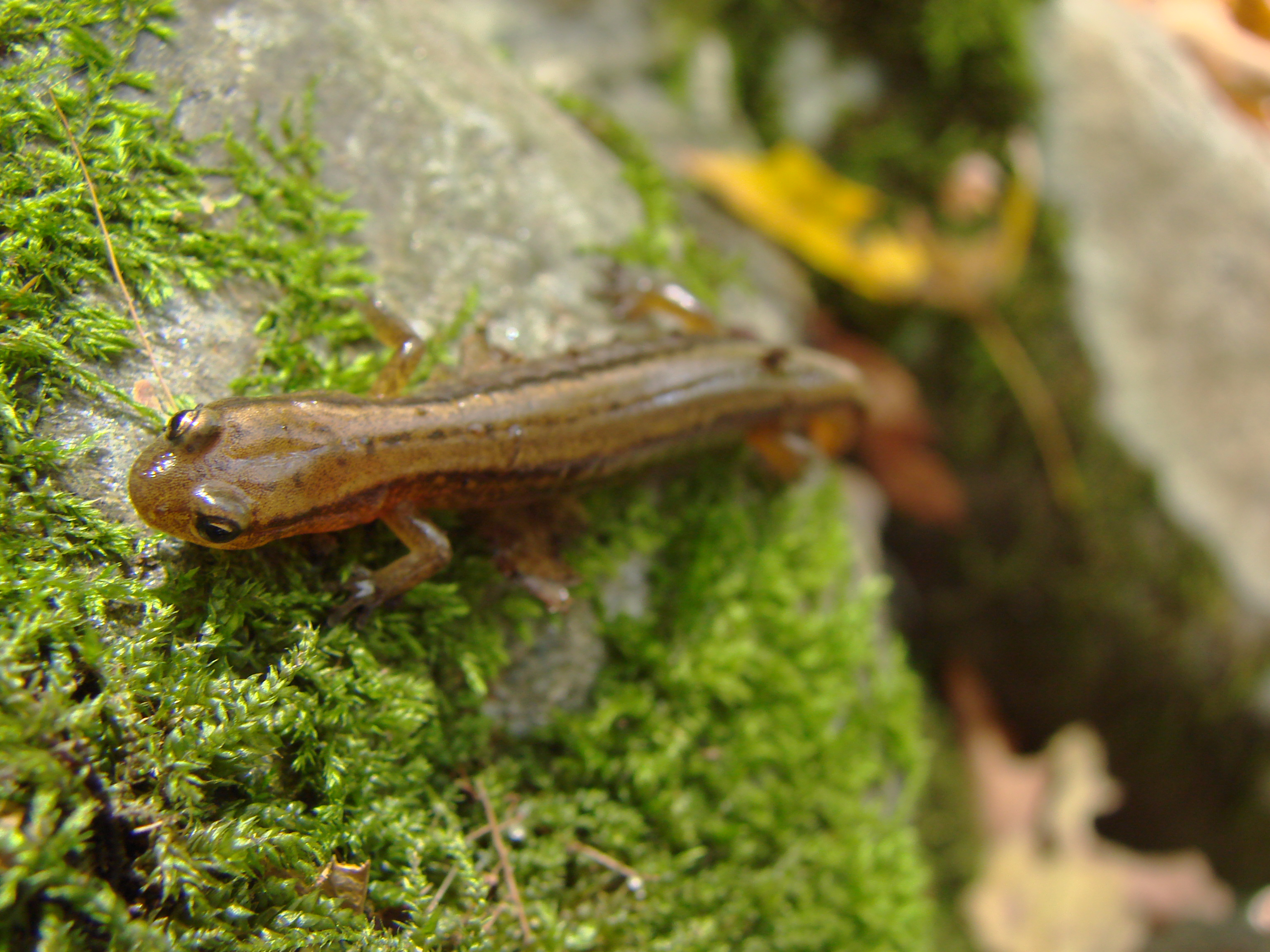 Northern two-lined salamander (Eurycea bislineata)